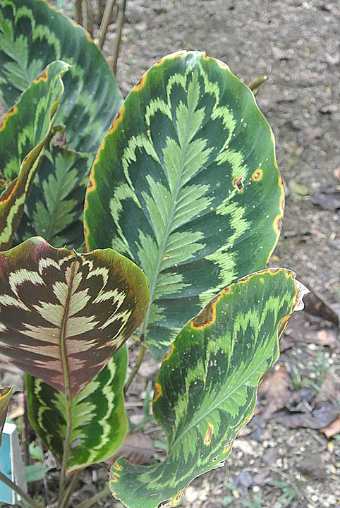 The patterned leaves of Puma Panga at Jatun Sacha gardens, Ecuador.